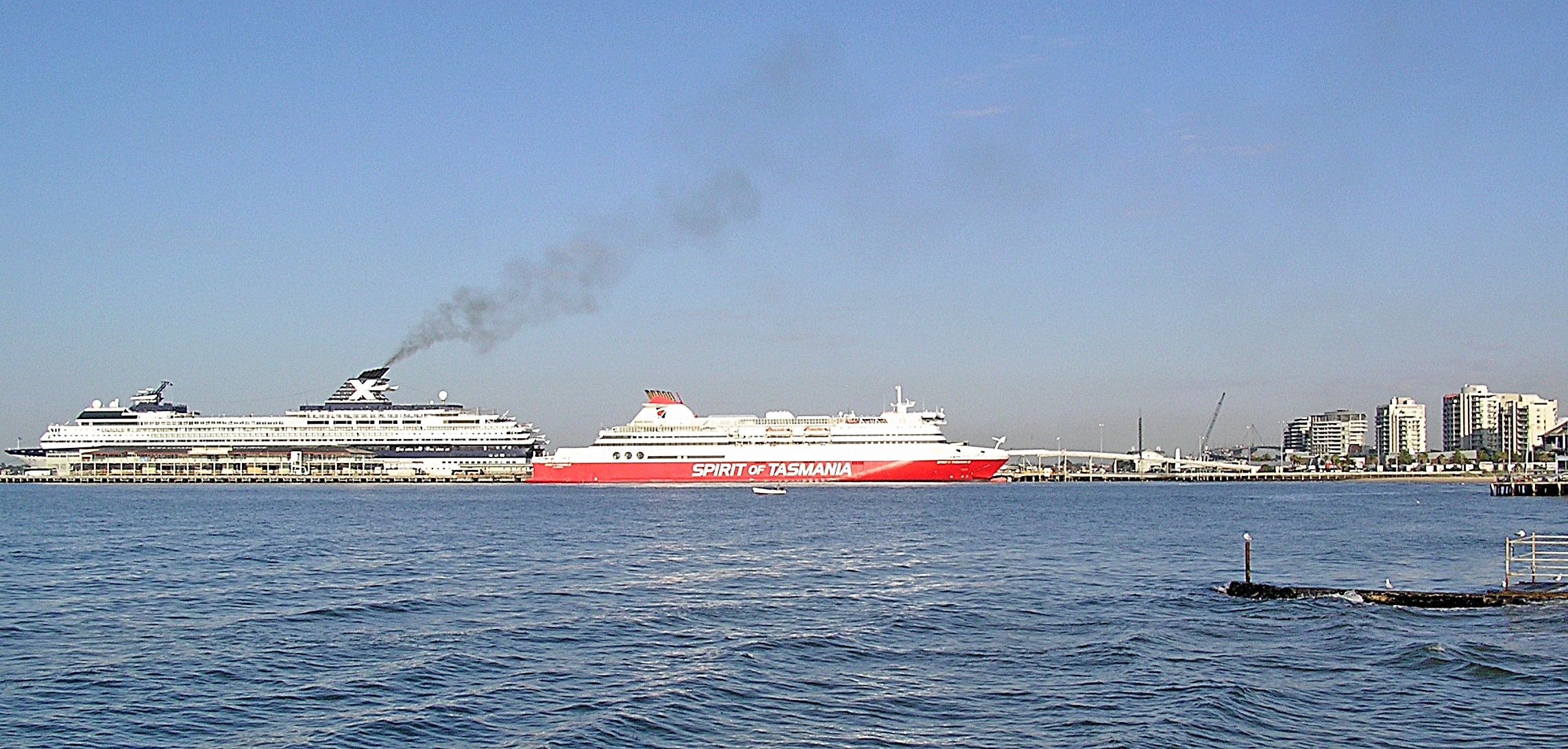 Spirit of Tasmania at Station Pier, Port Melbourne